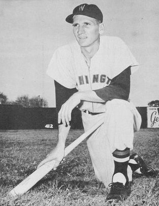 Professional baseball player Ron Samford